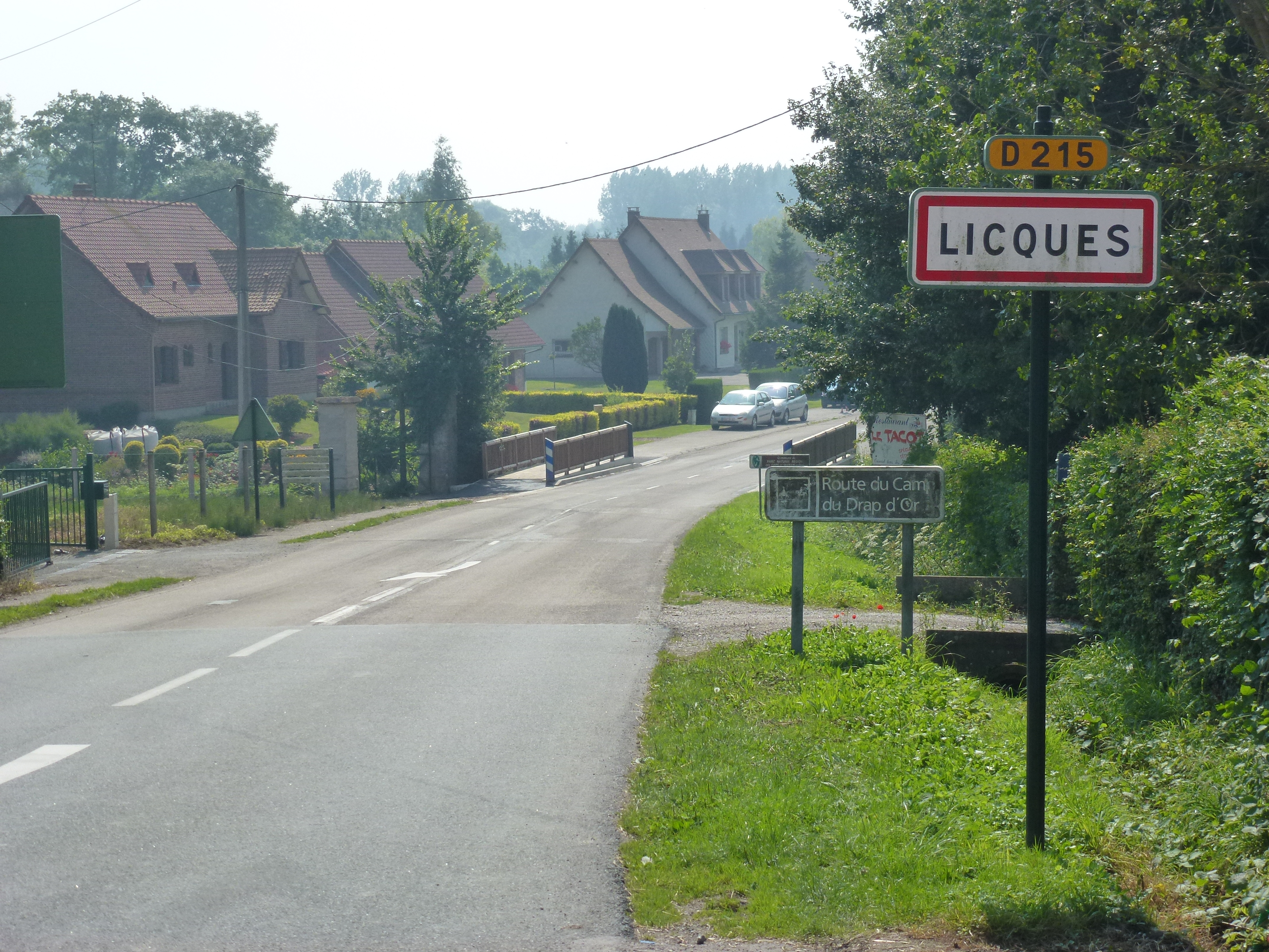 Licques (Pas-de-Calais) city limit sign